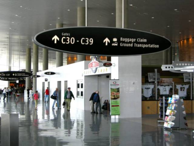 74 dpi 640x480